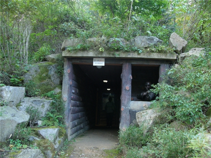 Partisan's Headquarter in Hoemunsan, South Korea 회문산 빨치산 사령부 입구